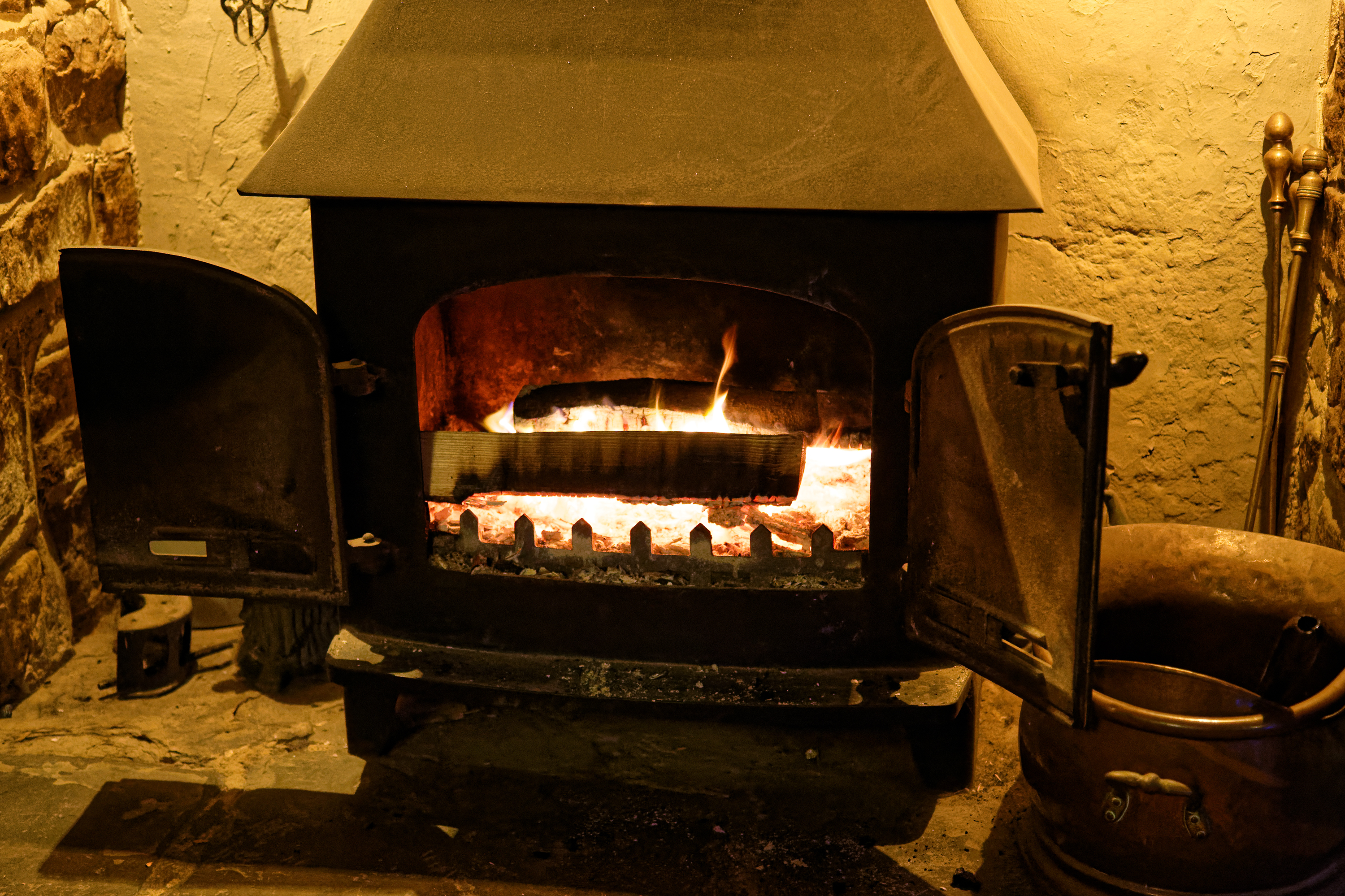 Wood-burning stove at The Black Horse Inn public house, on Nuthurst Street in Nuthurst, West Sussex, England. The Black Horse Inn, reputedly haunted by a local murderer who drank here, is part of the 17th-century Black Horse Cottages Grade II listed buildings. Camera: Canon EOS 6D with Canon EF 24-105mm F4L IS USM lens. Software: RAW file lens-corrected and optimized with DxO OpticsPro 11 Elite and Viewpoint 2, and further optimized with Adobe Photoshop CS2.